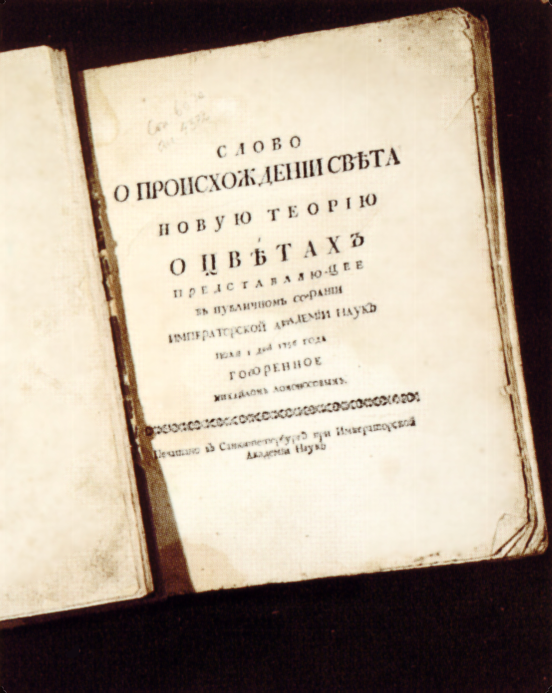 The title page of M. Lomonosov's book «Word on the origin of light, a new theory of colors representing» (1756)